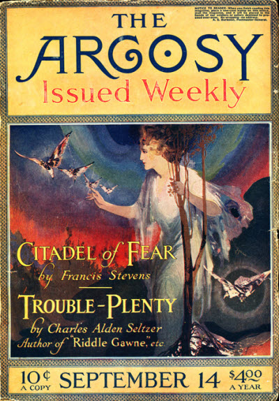 The Argosy, September 14, 1918